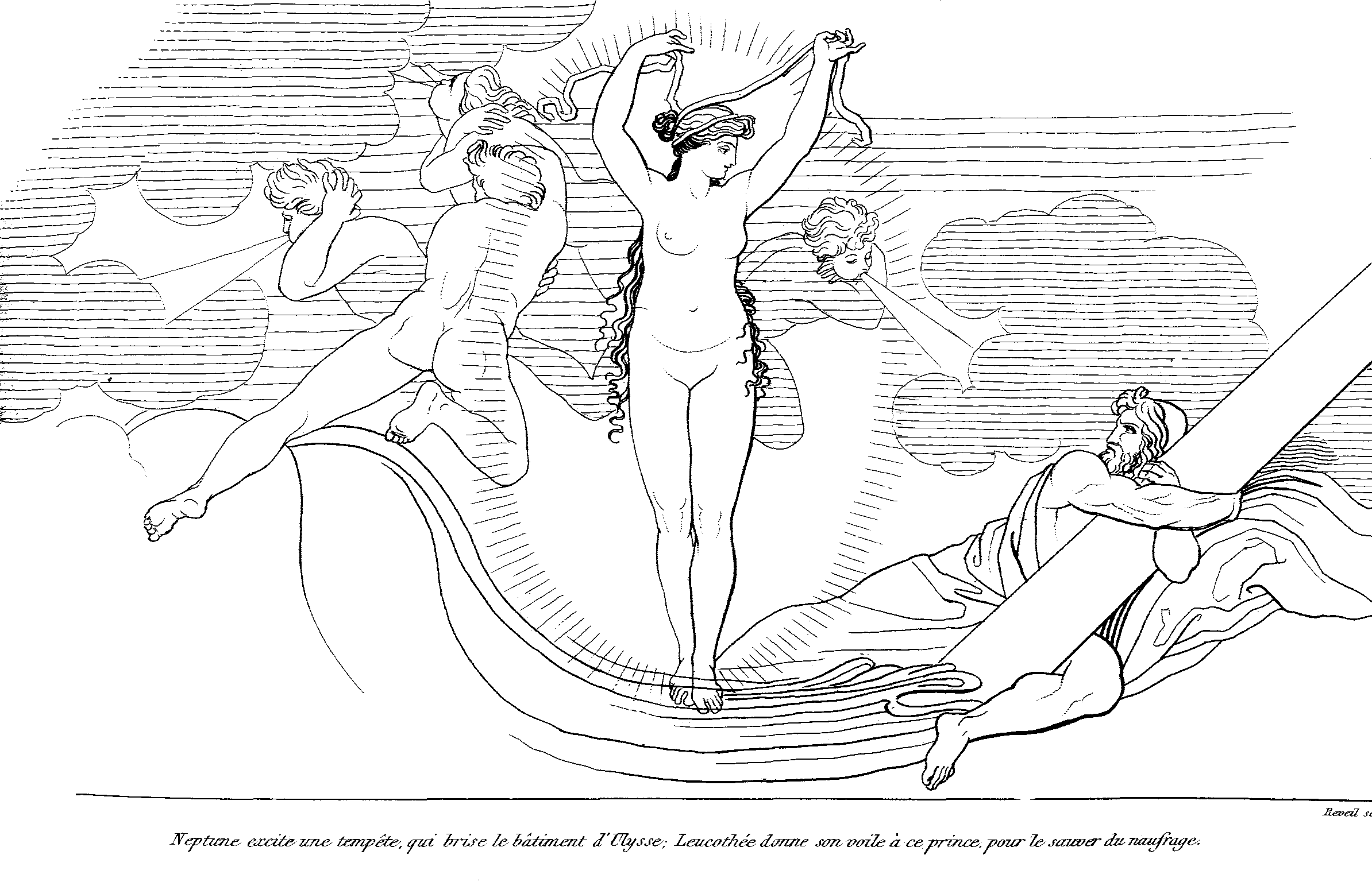 Illustrations of Odyssey